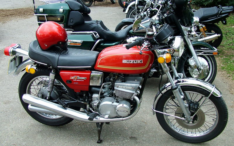 A bit Of a classic! Suzuki GT380 2st